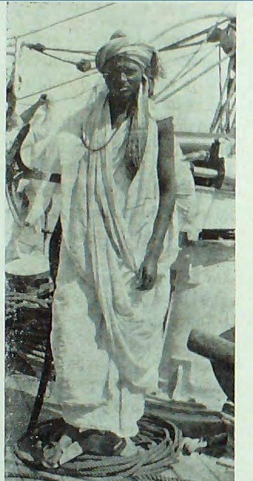 Dervish Abdallah Sheri. 1877-1932